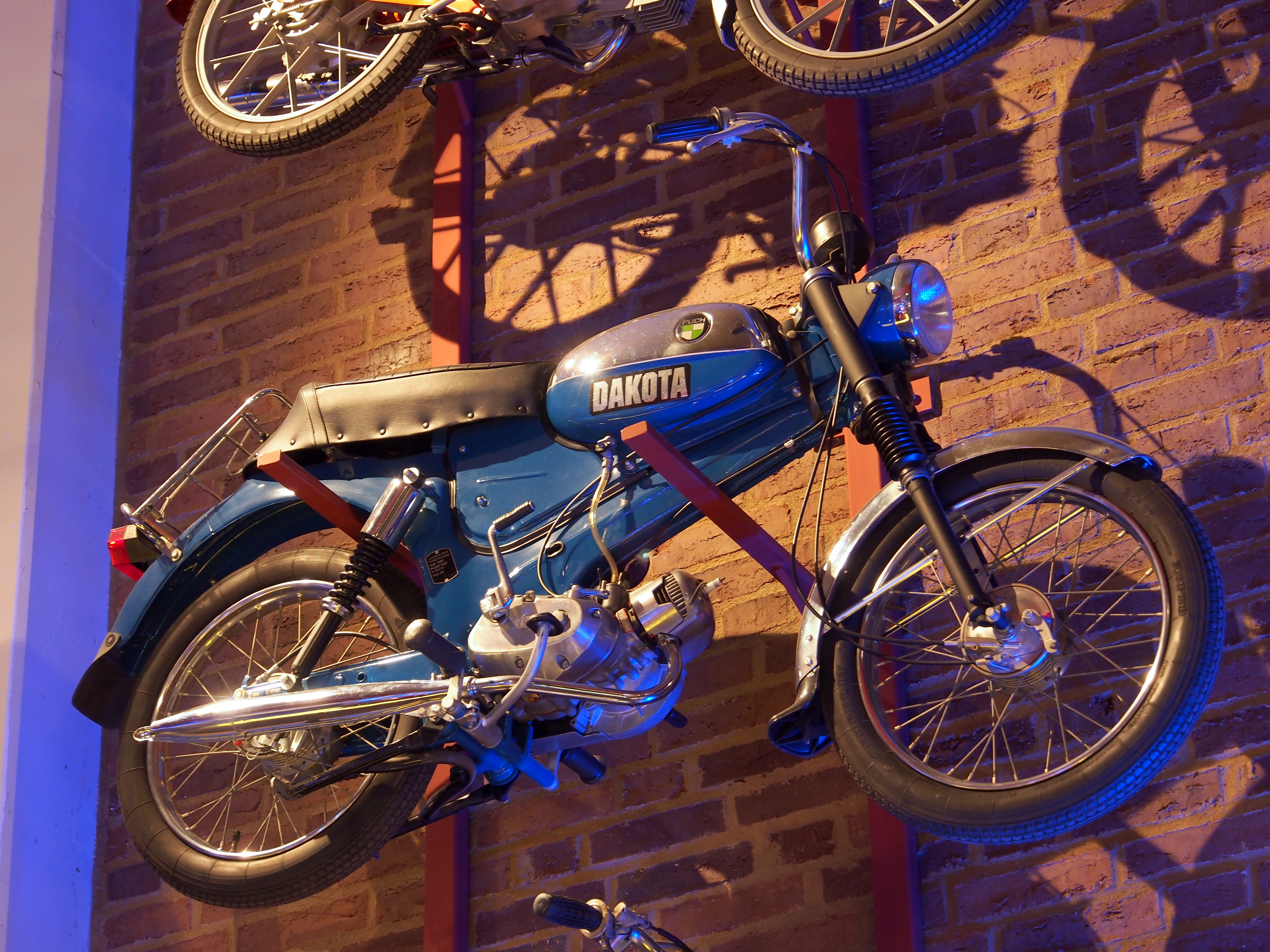 Photographed at Malmö Museer Teknikens och sjöfartens hus (Science and Maritime House) Malmo, Sweden.